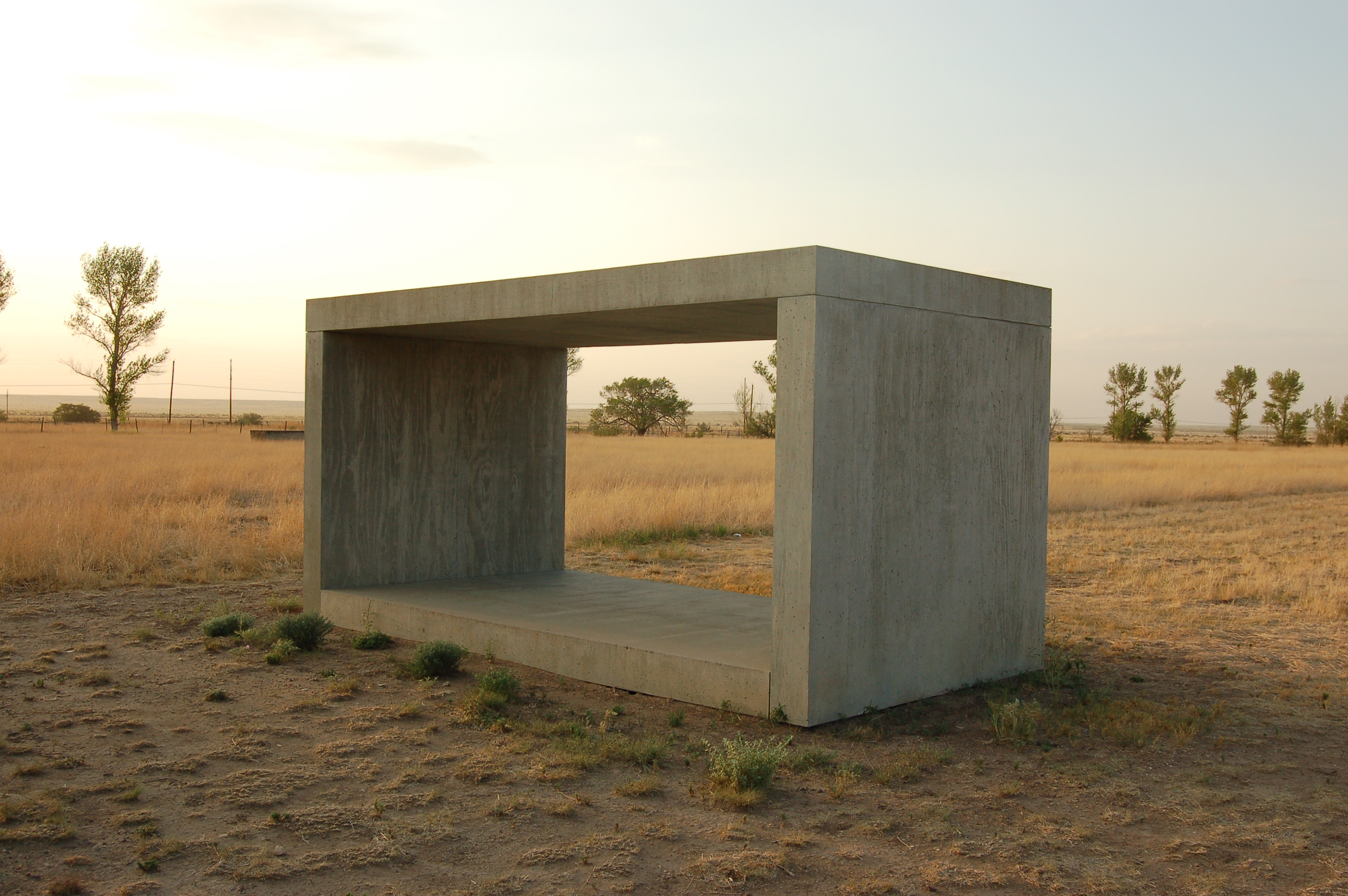 'Untitled' — concrete sculpture by Donald Judd. At the Chinati Foundation - Marfa, Texas.